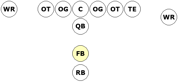 Fullback position highlighted in an American Football offensive formation commonly called "I-formation"